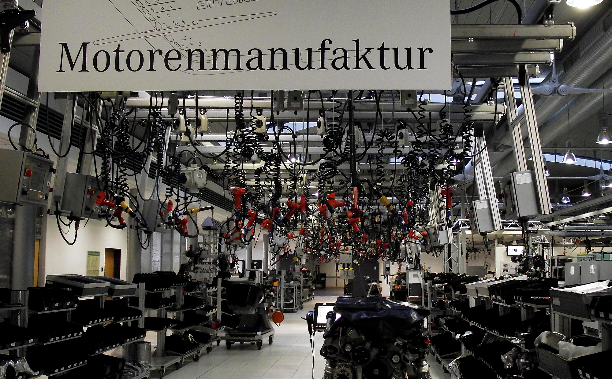 Mercedes-AMG Motorenmanufaktur (Engine Factory) in Affalterbach